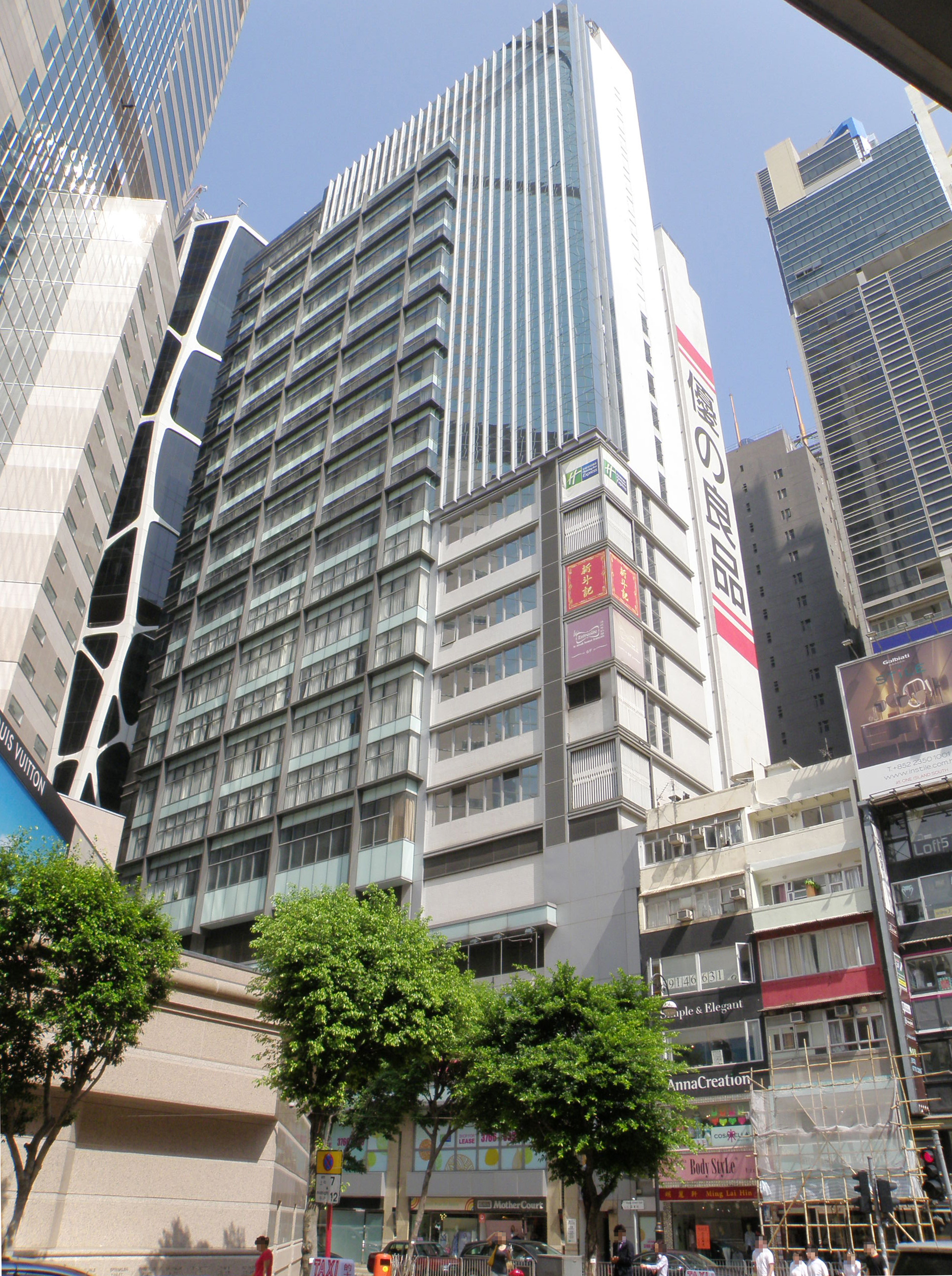 Holiday Inn Express hotel in Causeway Bay, Hong Kong.